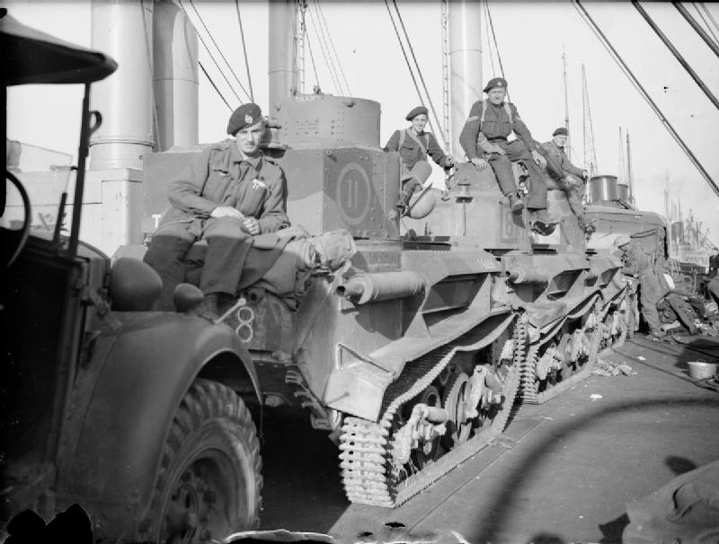 The British Army in the United Kingdom 1939-45 Light Tank Mk VIs of 5th Battalion, Royal Tank Regiment on the ship MV DELIUS at Southampton having returned from France during the evacuation of British forces from Cherbourg, 19 June 1940.